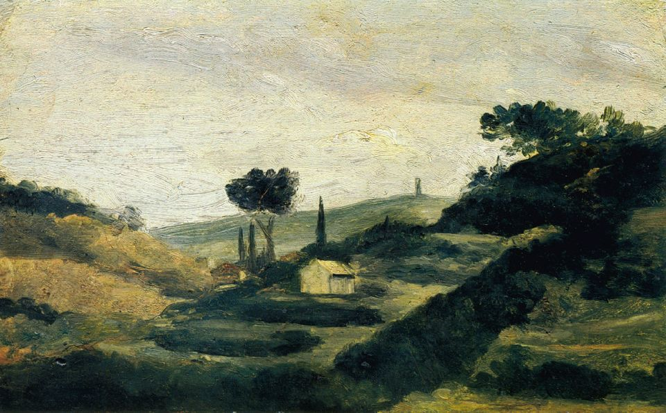 Painting Paysage de la campagne d'Aix à la tour de César by Paul Cézanne